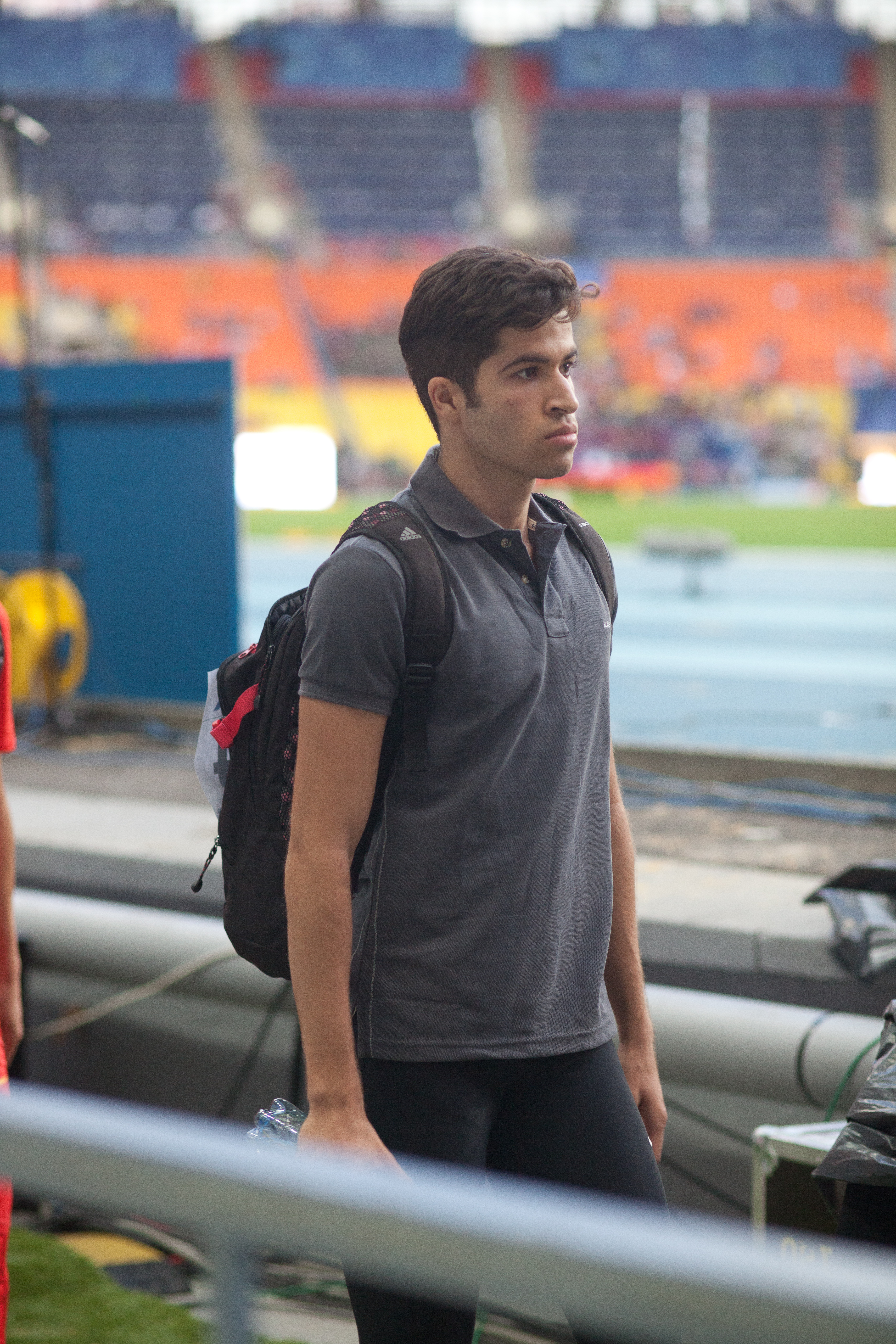 Hassan Taftian during 2013 World Championships in Athletics in Moscow.